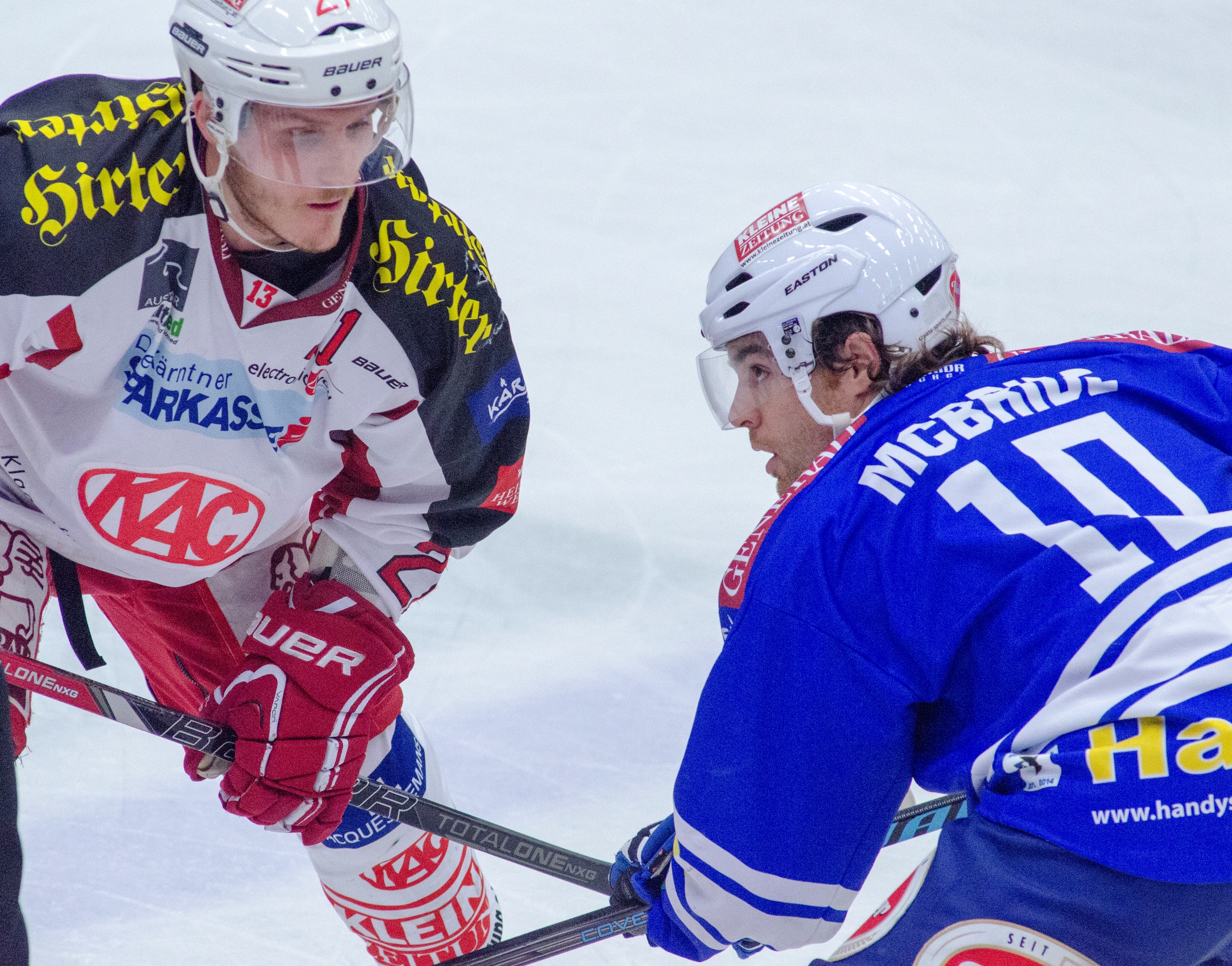 frostworx-micheu131022 (48 von 67)